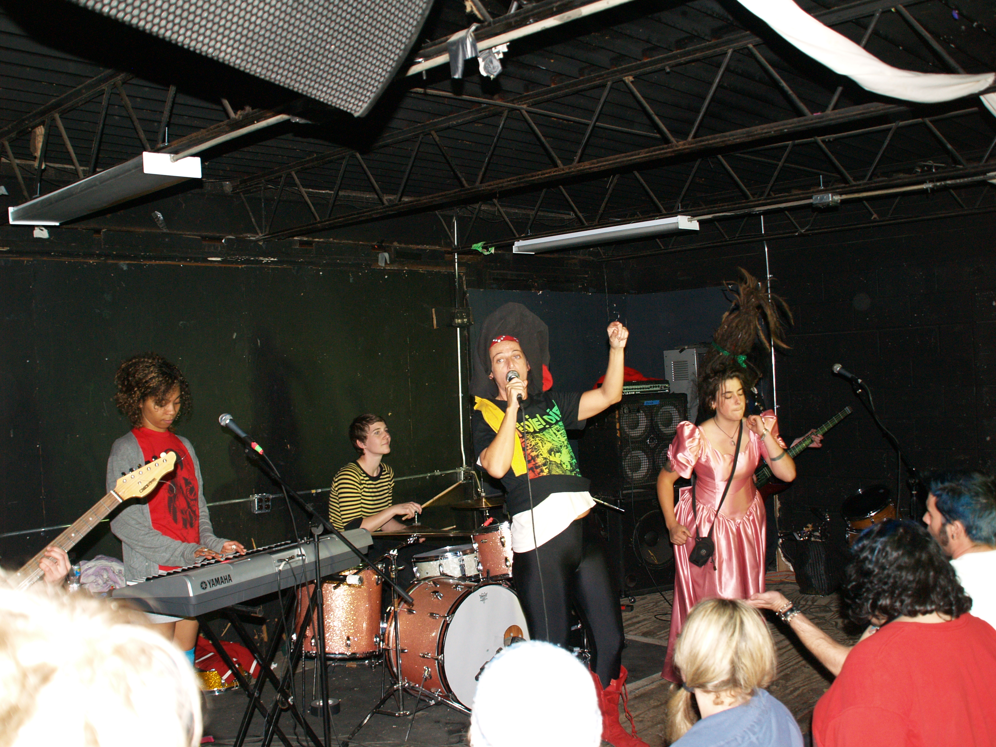 The Slits